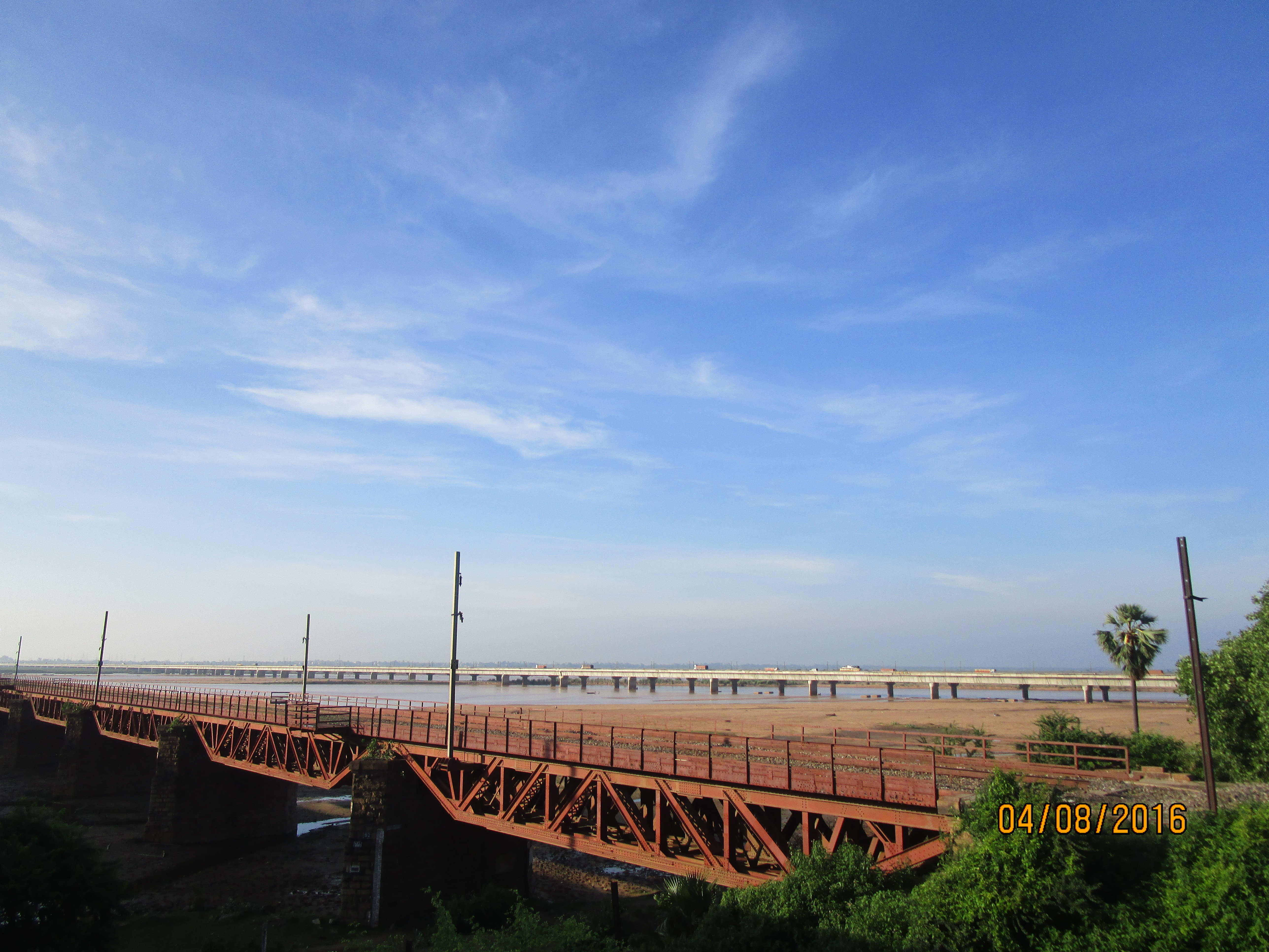 Son River at Son Nagar Junction railway station